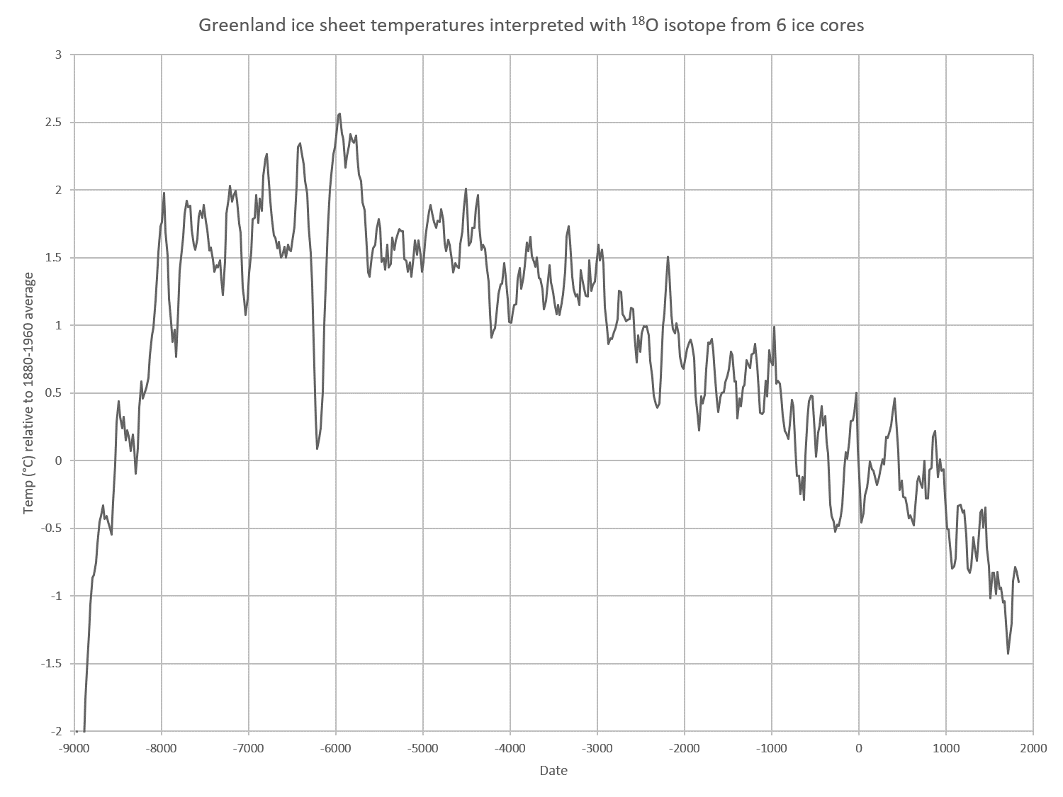 The temperature reconstruction produced using data from all six ice cores is shown in the source below, and spans the period from 9690 BC to AD 1970. The attached figure does not include the end record. It has a resolution of around 20 years, meaning that each data point represents the average temperature of the surrounding 20 years. The end of the record – 1970 – showing the average temperature between 1960 and 1980 - is not displayed on this figure (see the source below). B. M. Vinther, S. L. Buchardt, H. B. Clausen, D. Dahl-Jensen, S. J. Johnsen, D. A. Fisher, R. M. Koerner, D. Raynaud, V. Lipenkov, K. K. Andersen, T. Blunier, S. O. Rasmussen, J. P. Steffensen & A. M. Svensson, "Holocene thinning of the Greenland ice sheet", Nature volume 461, pages 385–388 (17 September 2009).